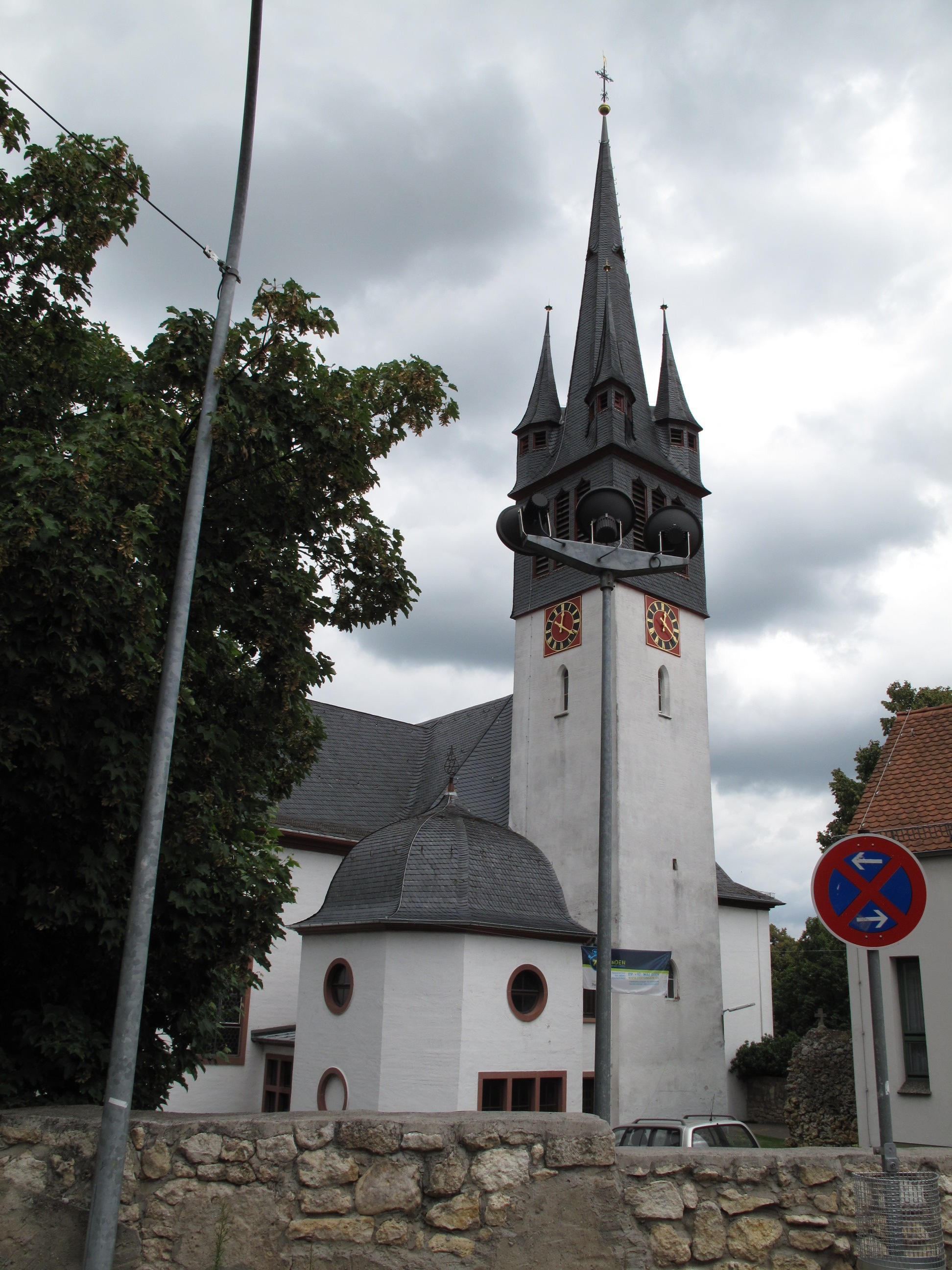 Heidesheim, church